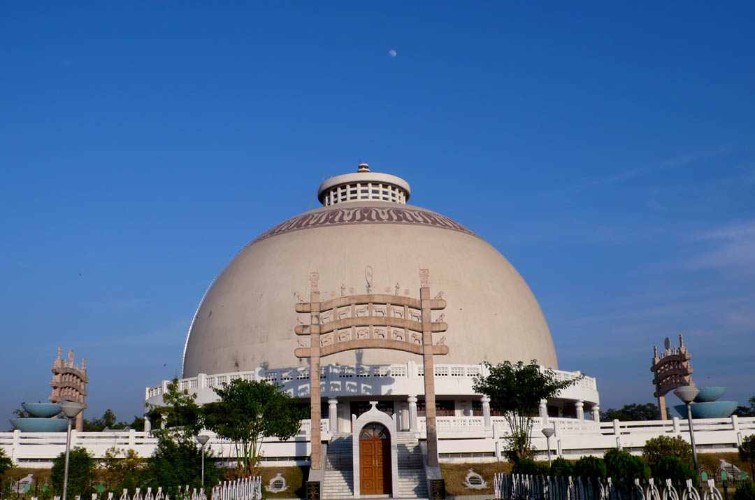 Stupa at the site where Dr. Bhimrao Ramji Ambedkar, the chief architect of the Constitution of India embraced Budhism with 500000 peoples. This stup and the gates are modelled on the ancient Stupa at Sanchi, Madhya Pradesh, India. More on Dr. Ambedkar here